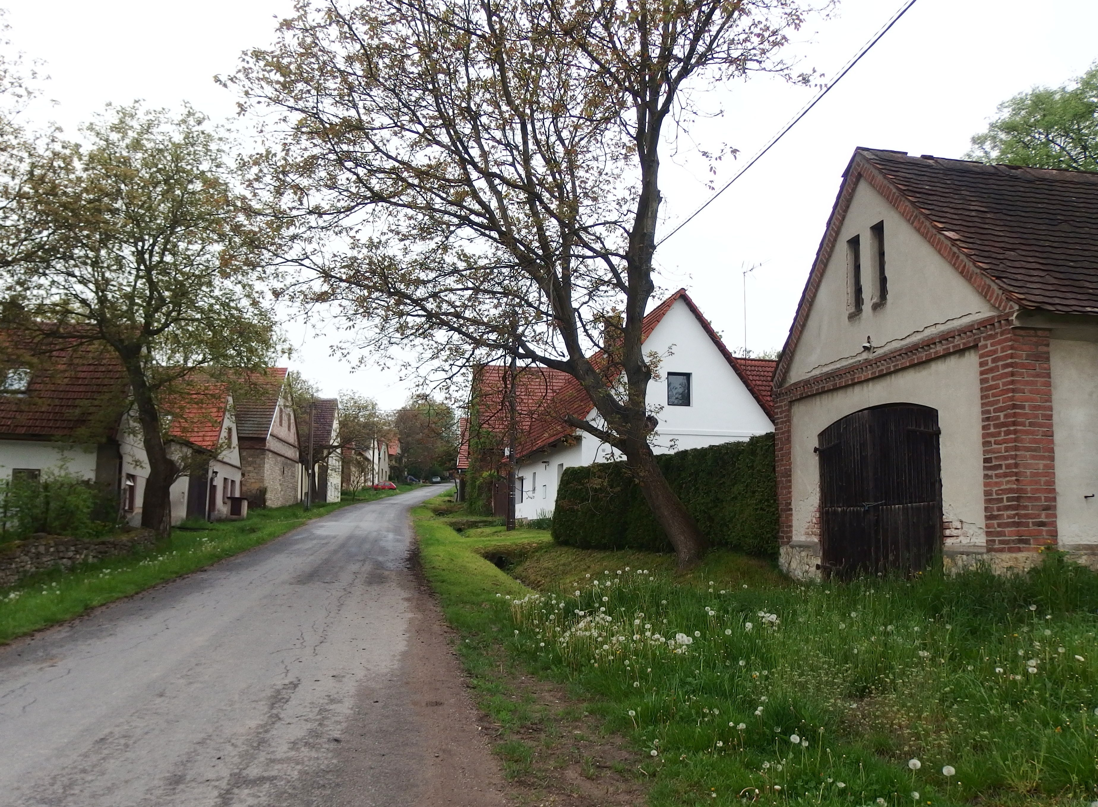 Vysoké Mýto, Ústí nad Orlicí District, Czech Republic, part Vanice.